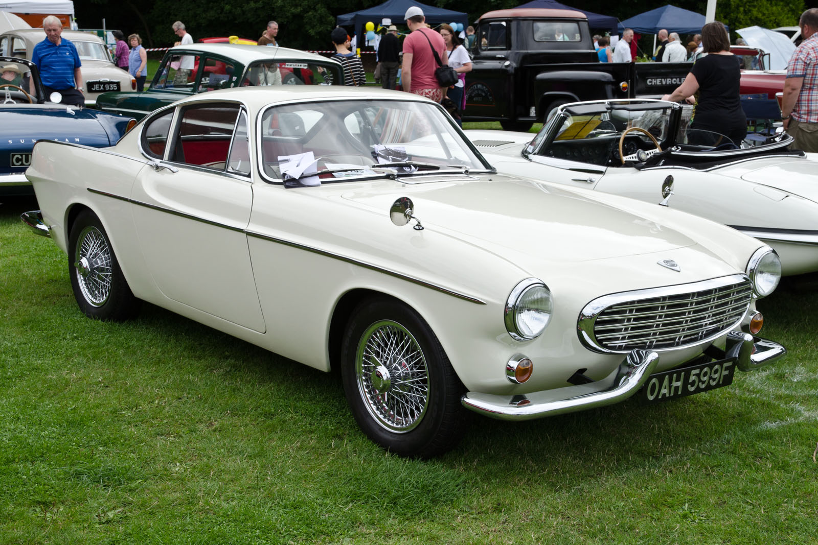 Hebden Bridge Vintage Weekend 04/08/2013